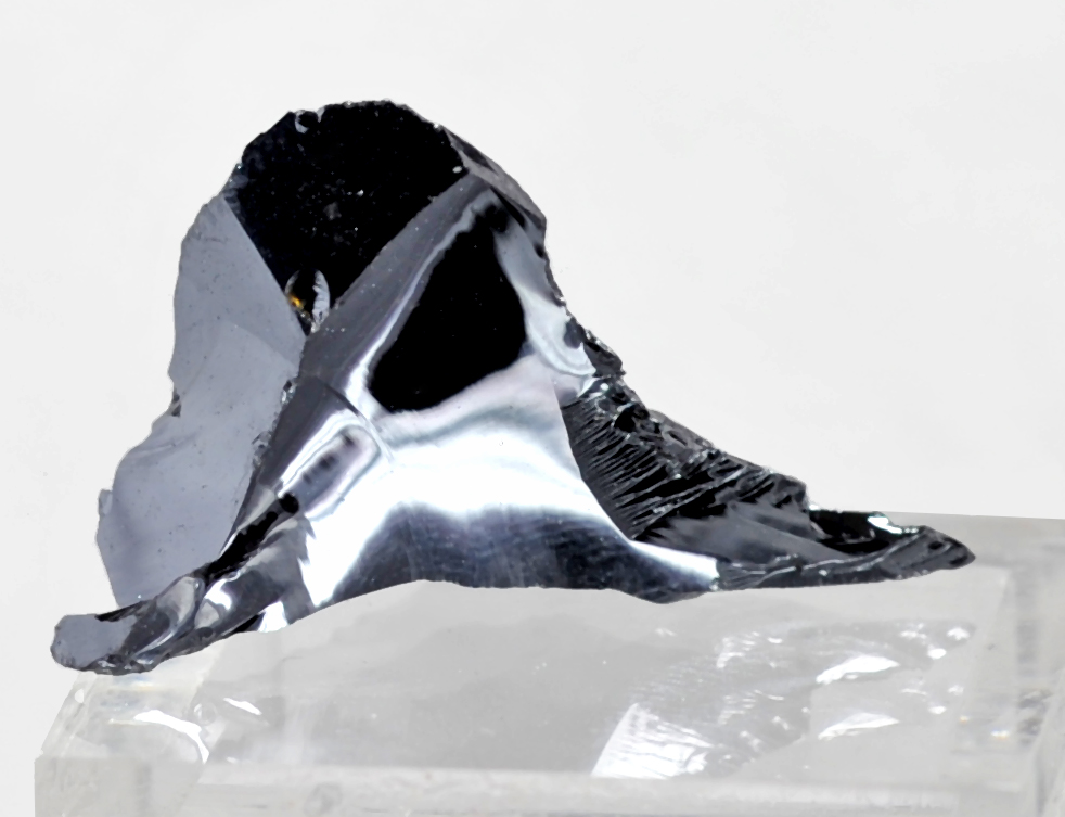 A piece of zone refined silicon